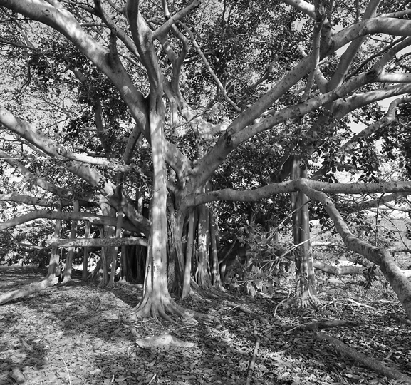 Banyan tree near Guantanamo's 'Girl Scout Beach' in 2015 Original caption: “This Banyan tree, located near Girl Scout Beach, is a featured part of the New to GTMO tour because of its impressive size. Banyan trees can reach up to 100 feet tall and spread out over acres of land, the largest of these tress is located in India and reportedly occupies 8 acres of land, according to